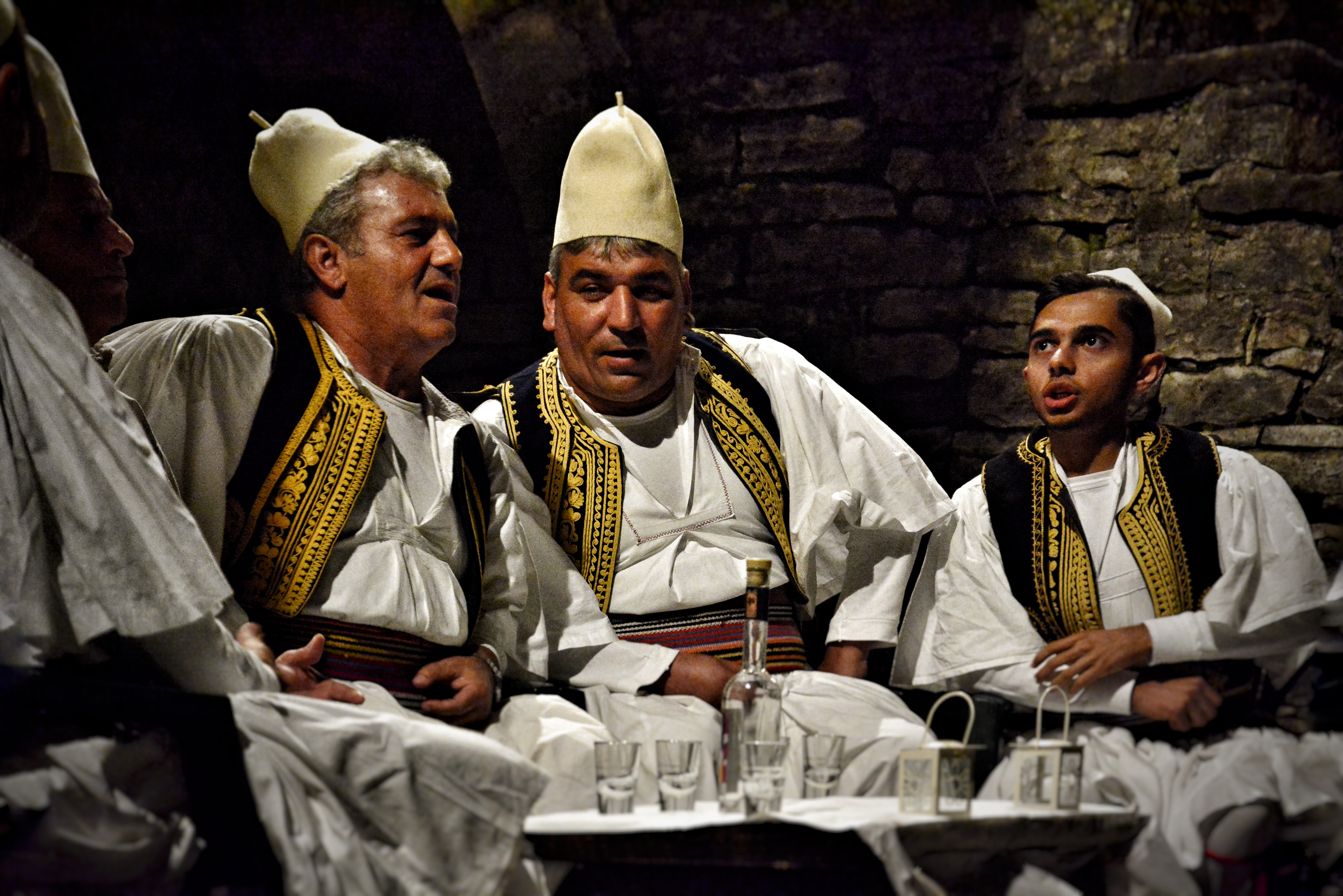 Gjirokastra This photo has been taken in the country: Albania